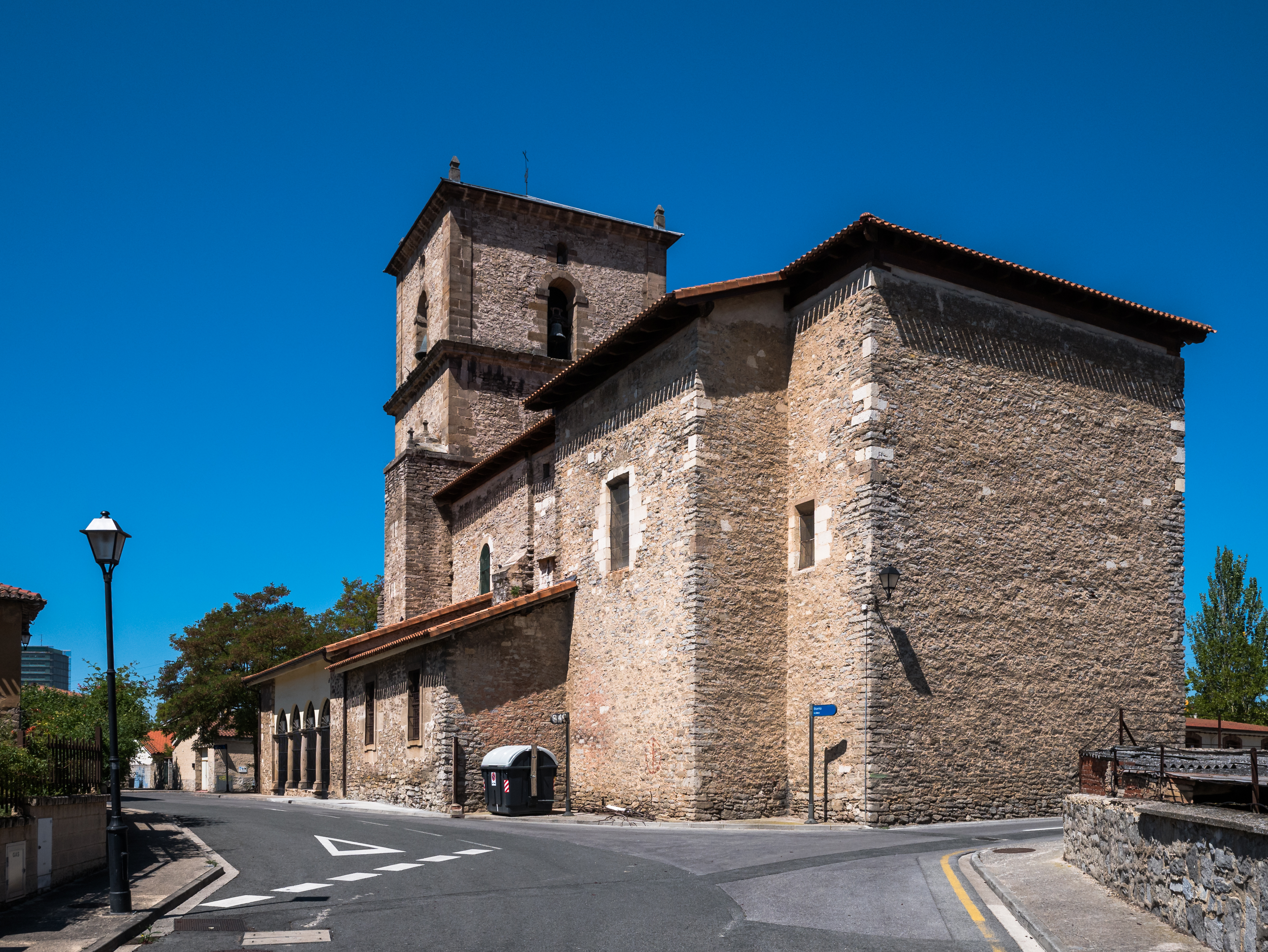 Portal de Betoño St. in August. Vitoria-Gasteiz, Basque Country, Spain